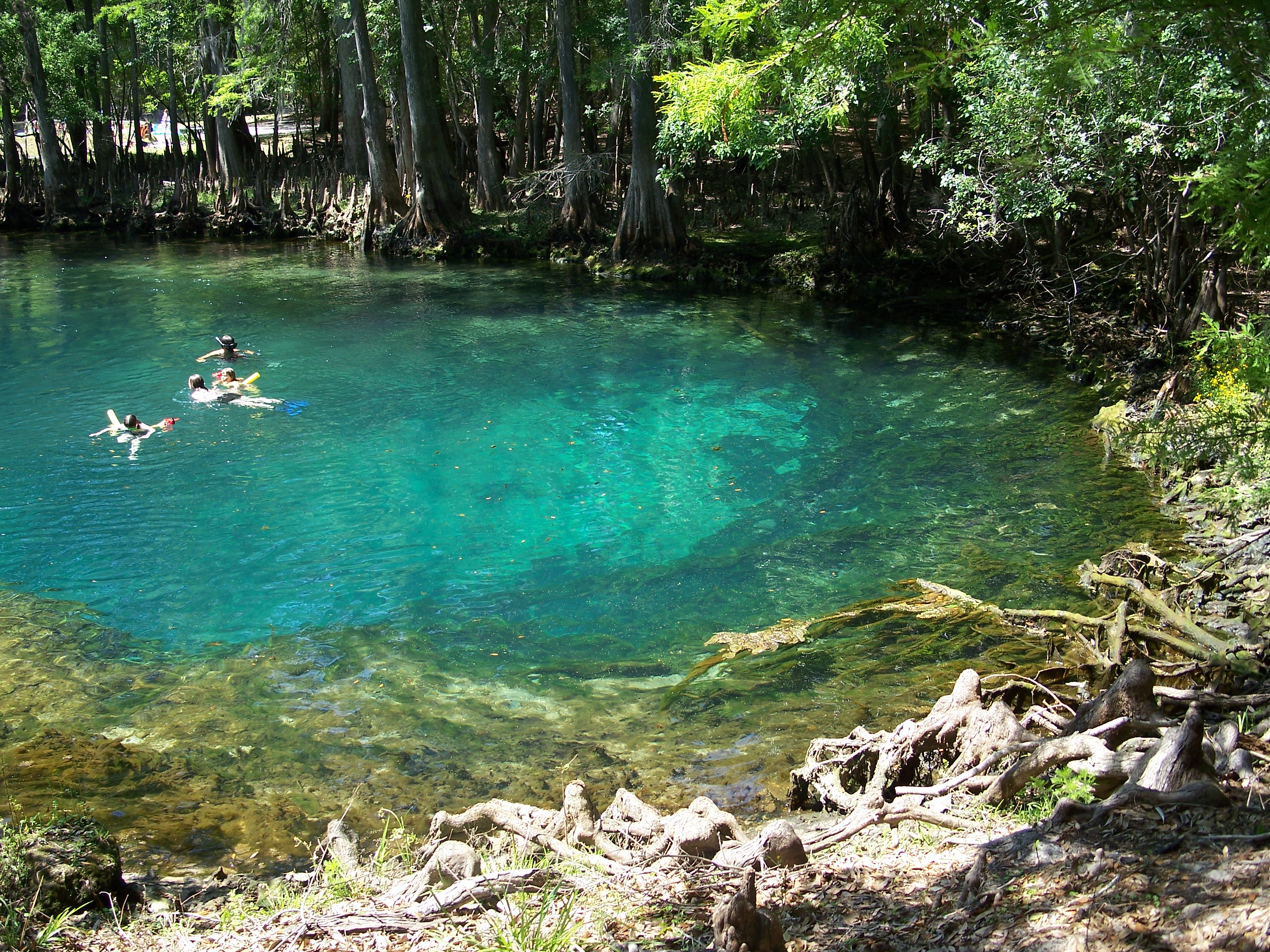 Manatee Springs. A huge karst spring in Manatee Springs State Park, near Chiefland, Florida, USA